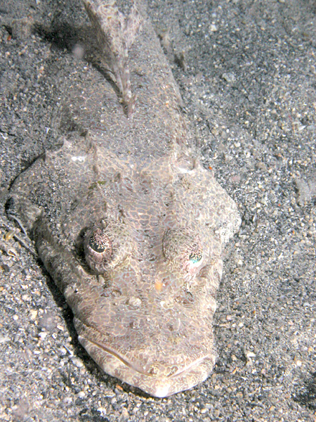 Fringe-Lipped Flathead, Kavieng, Papua New Guinea. Image taken by Clark Anderson/Aquaimages.